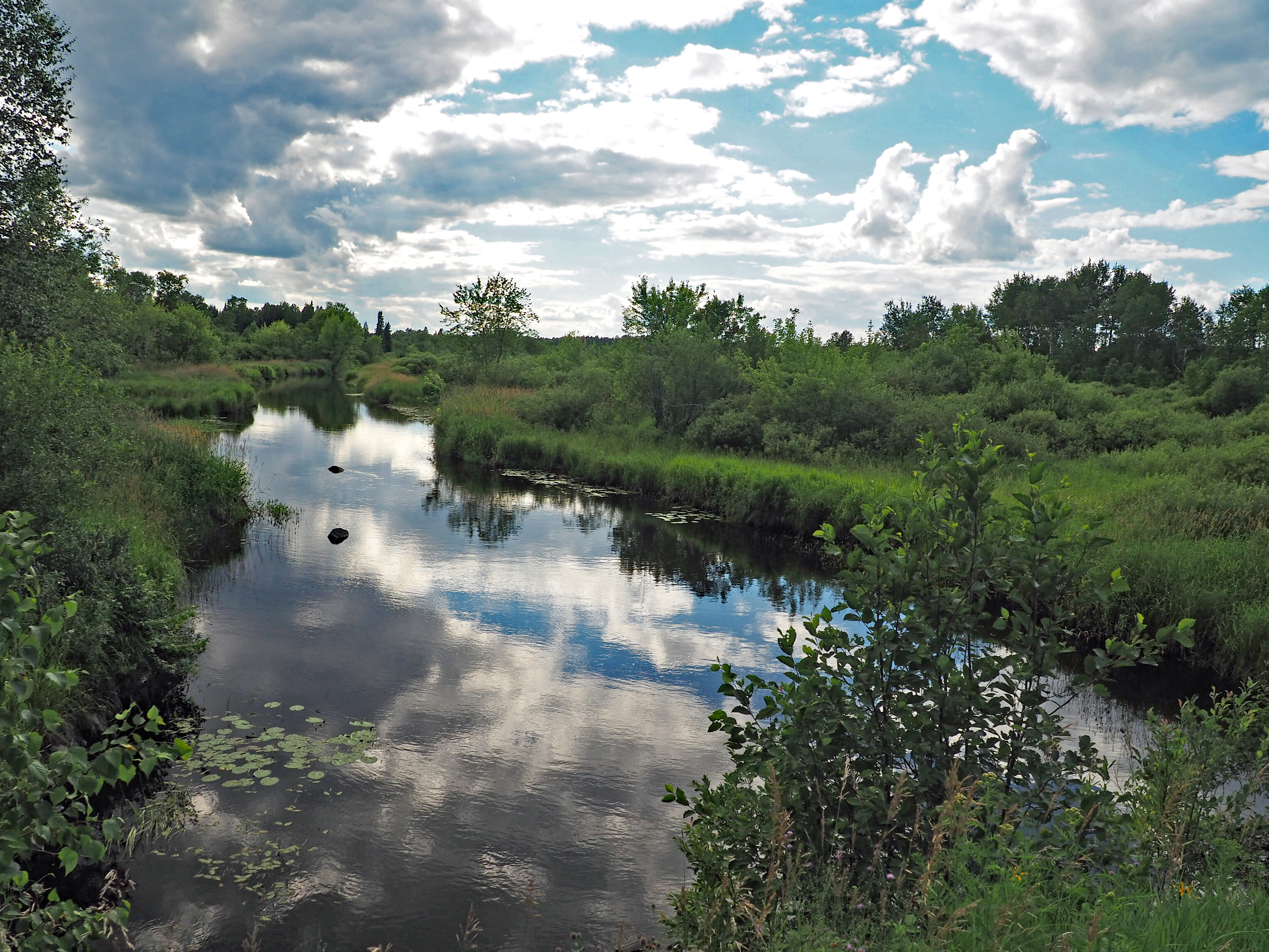 The Pike River, view looking west from Lax Road, Pike Township, Minnesota, USA.